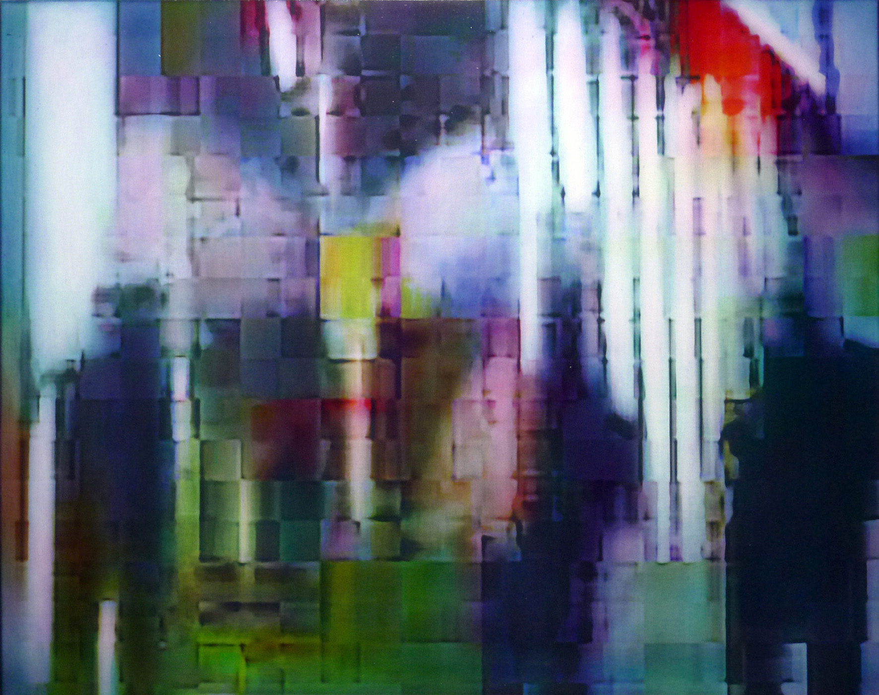 Technically out-dated mobile phones with low-resolution cameras were used to capture the nightlife on the streets of European, Asian, South- and North-American cities. For Kamila B. Richter the camera’s blurred limited phase image is the proper reflection of reality. The abstract, mediatised reality as content and old master style oil painting technique, which she layers in weeklong work stages to finish her versions of mediatised streetscapes, materialize the tension of contemporary visual culture.